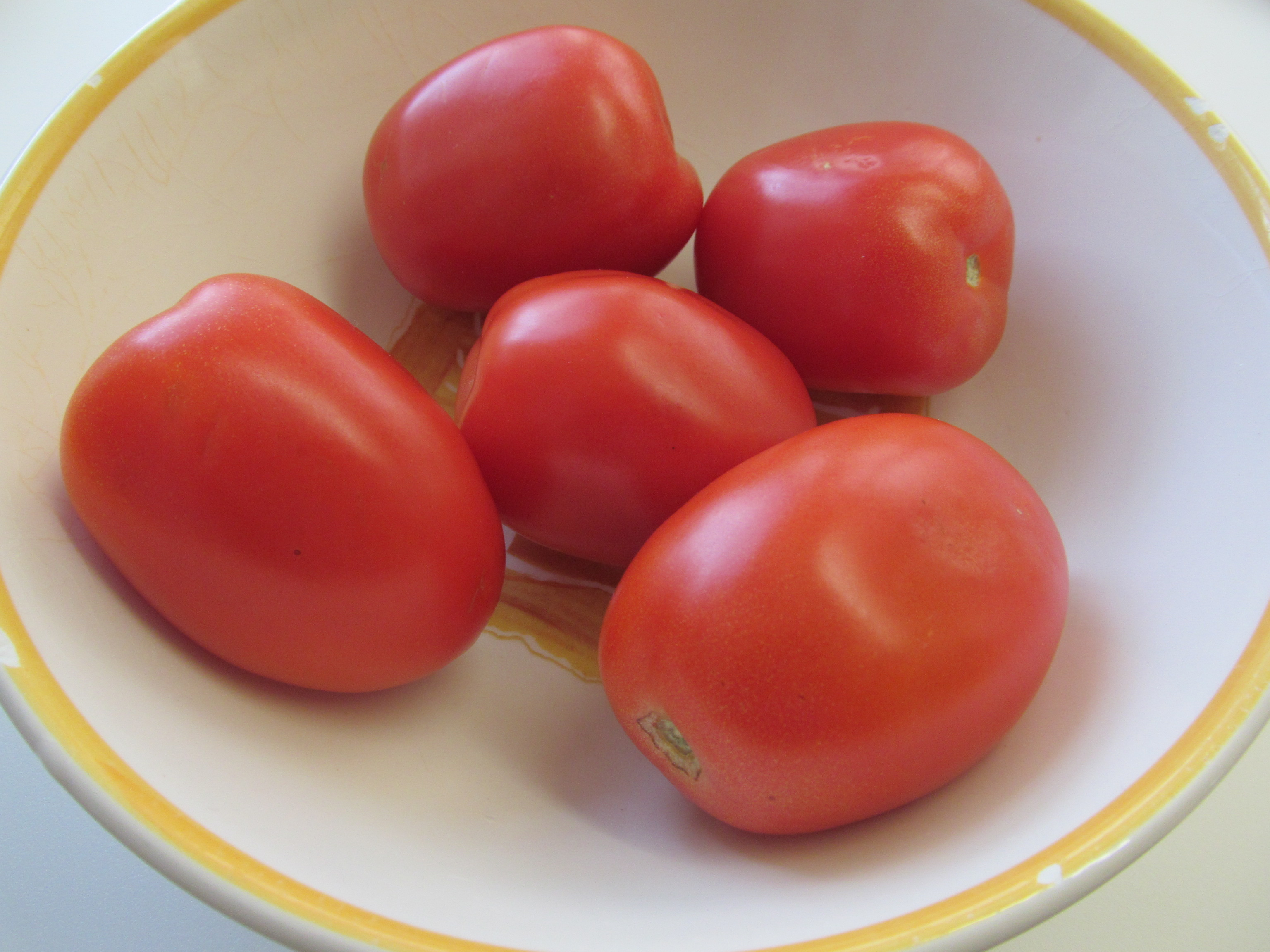 Plum Tomatoes, Lexington Massachusetts